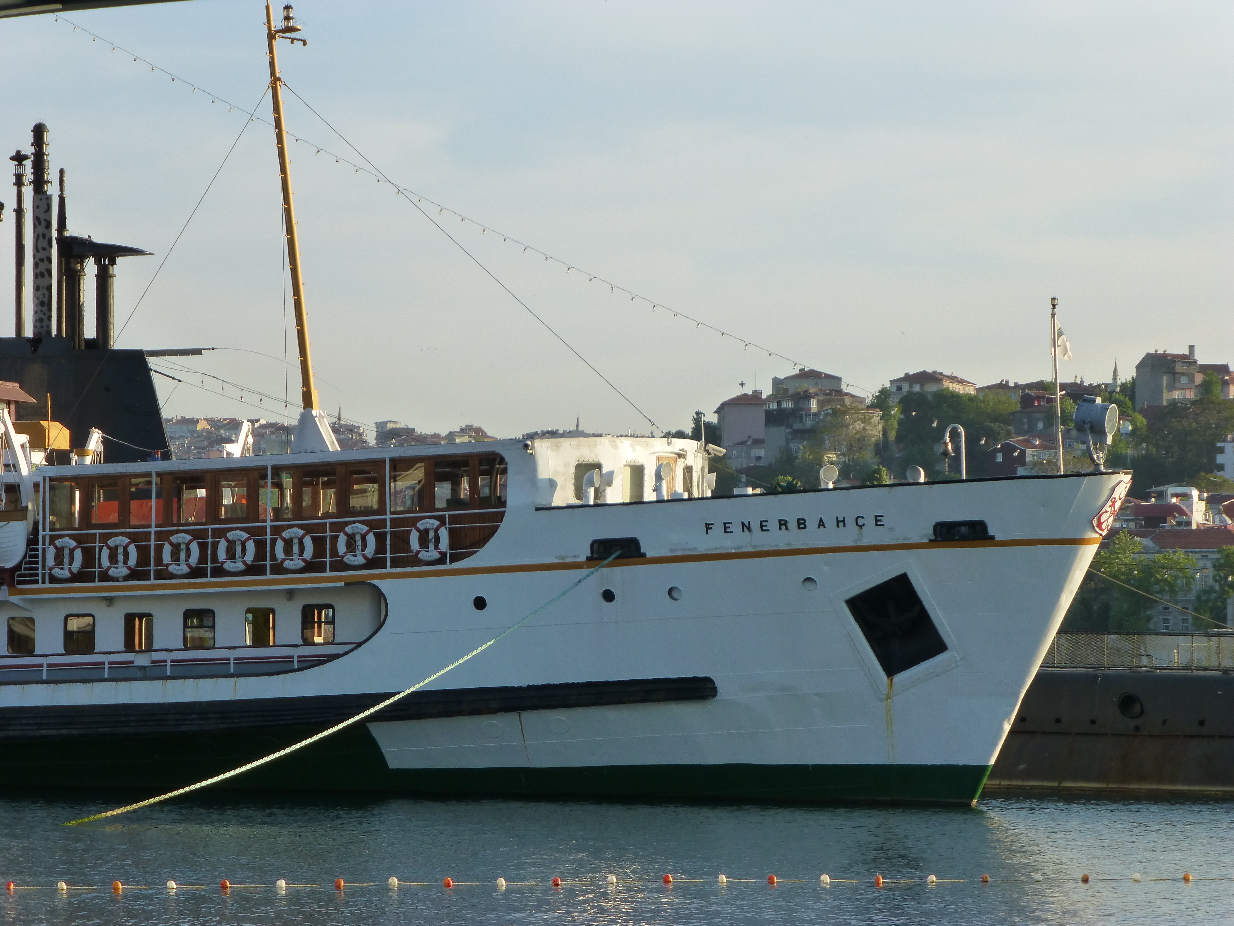 Rahmi M. Koç Museum